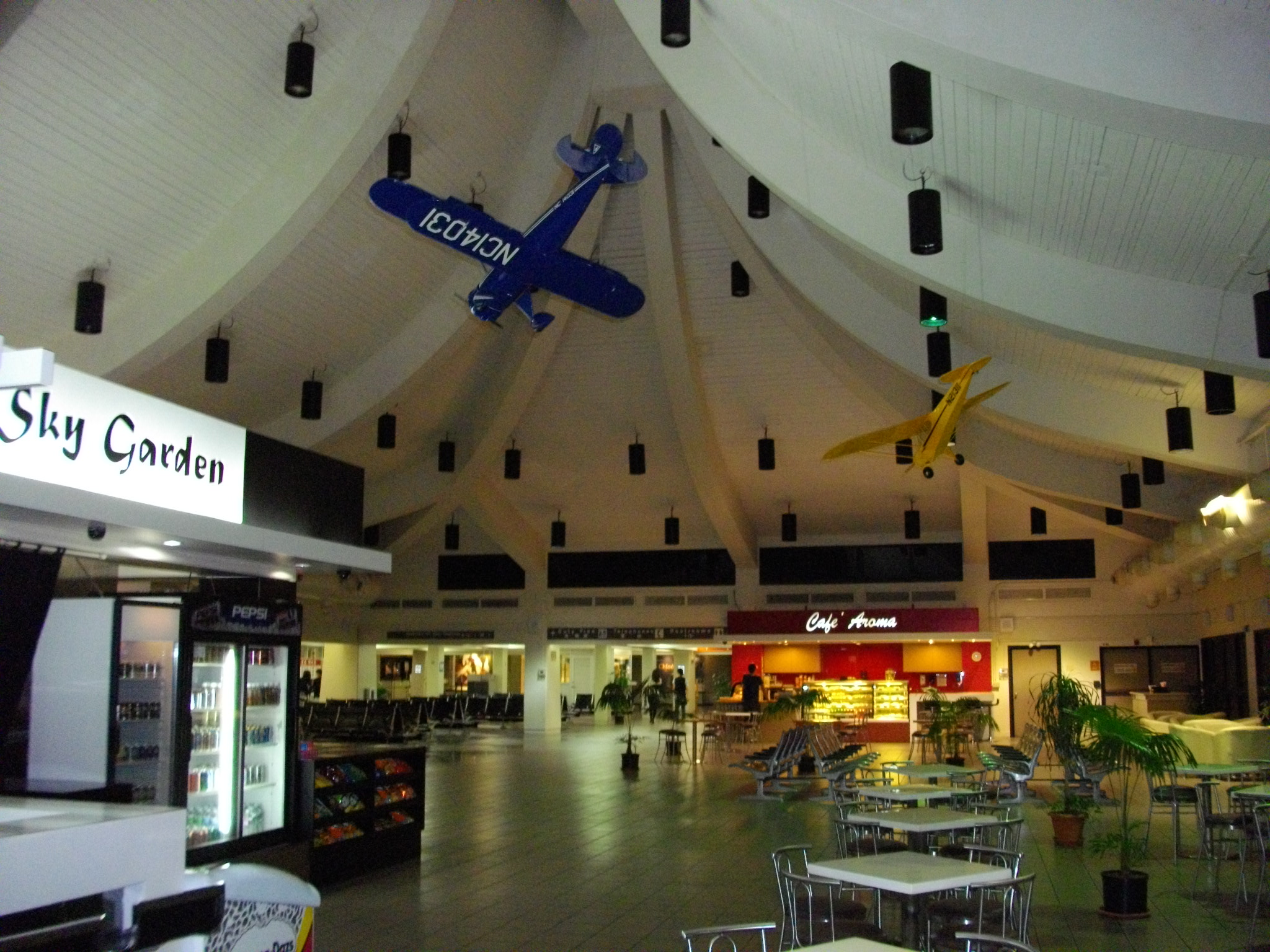 Saipan International Airport Restricted Area